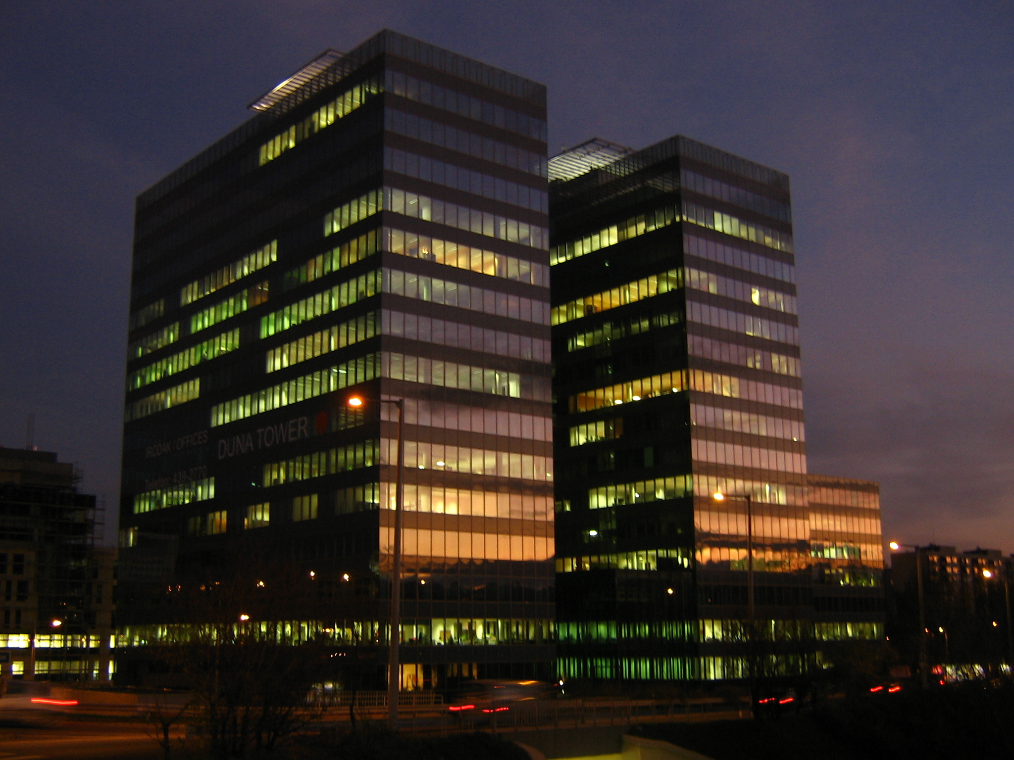 One of the several new-built building of Budapest, next to the Árpád bridge